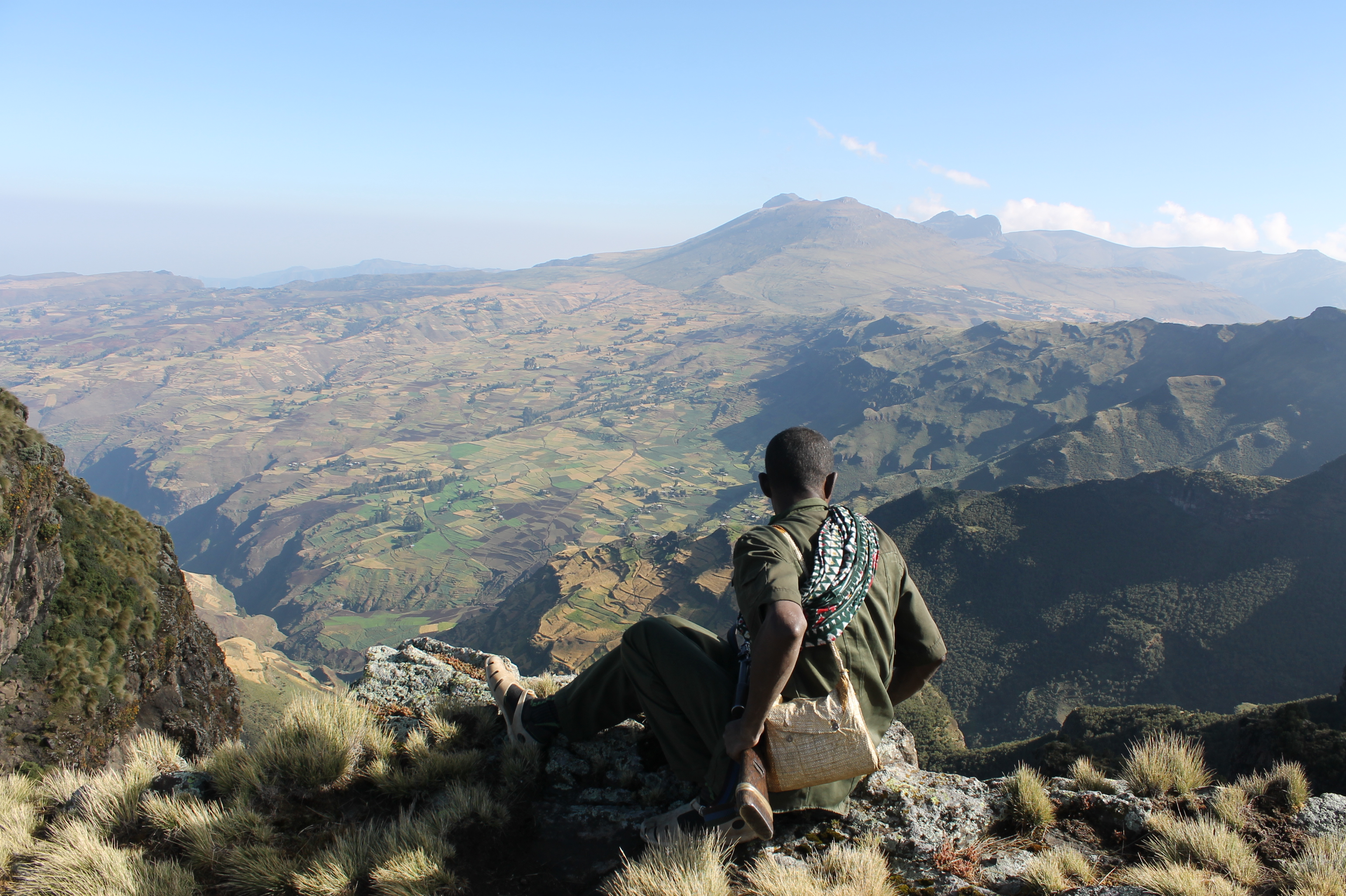 Scout having a rest in the Simien Mountains (Ras Bwahit ascension)